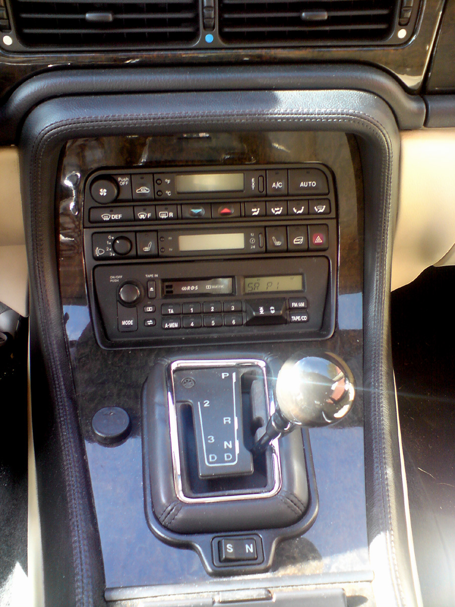 Center console of a 1995 Jaguar XJ Sport. Interior trim colors are cream and warm charcoal, and the wood veneer is birdseye maple.